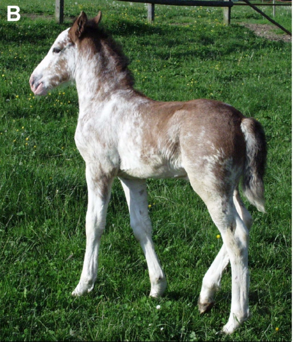 (B, C) Dominant white Franches-Montagnes stallion showing partial depigmentation as a colt and almost complete depigmentation at 4 years of age.